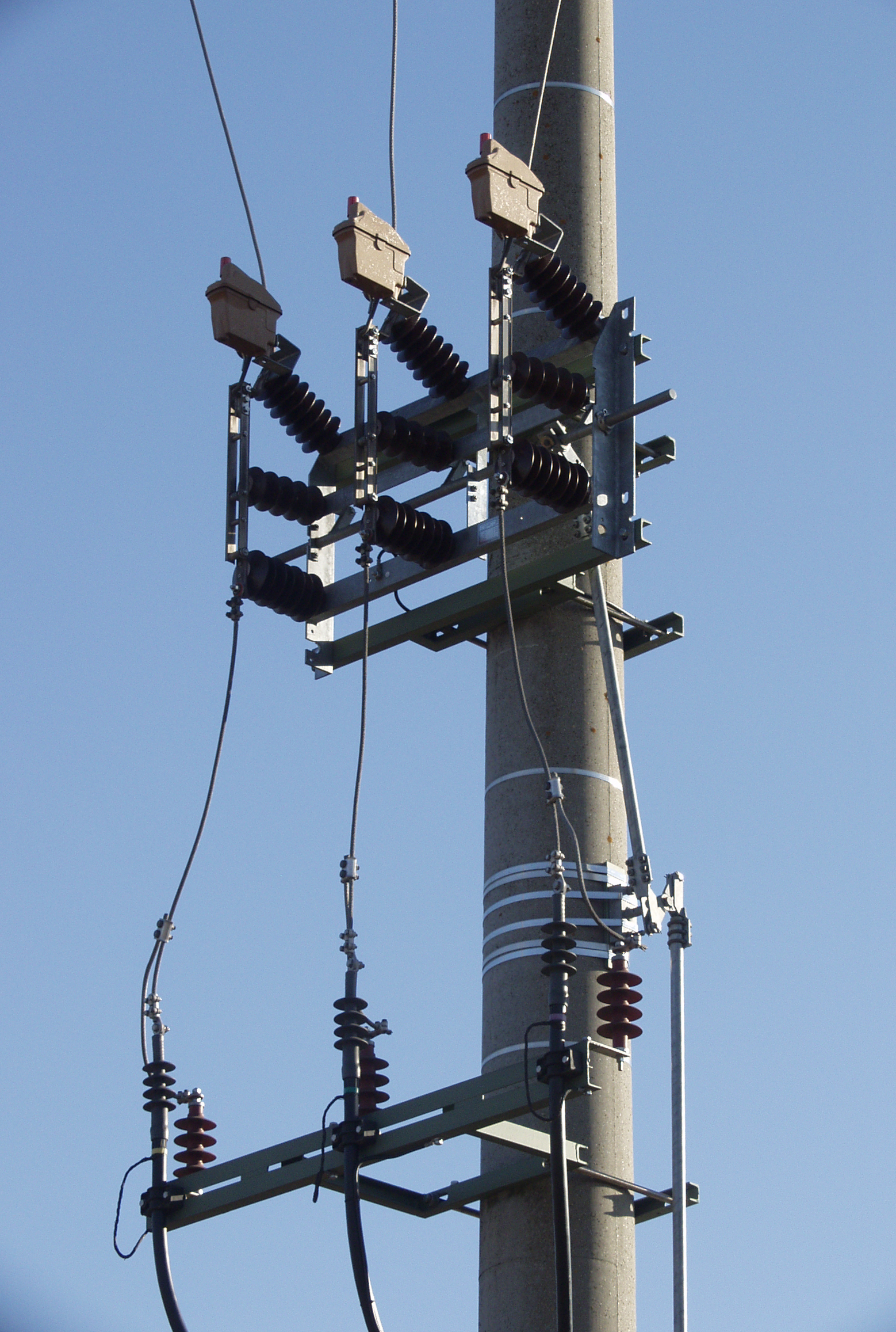 Detail: switch at pylon, close to Kößnach, Kirchroth (Germany)